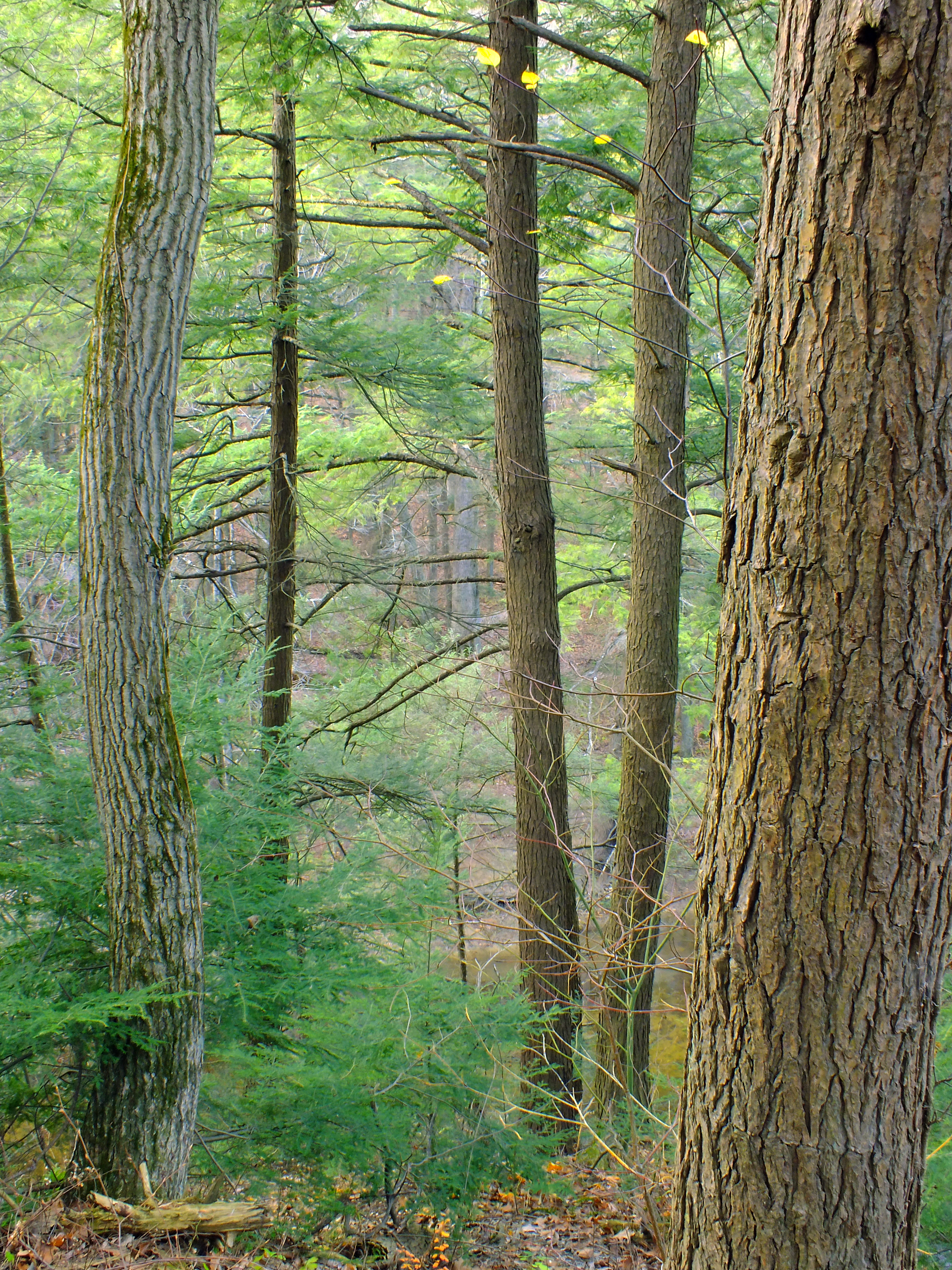 Drumore Township, Lancaster County. The preserve, owned and managed by the Lancaster County Conservancy, features a mature, healthy forest of hemlocks and mixed hardwoods along the steep-sided banks of Fishing Creek.